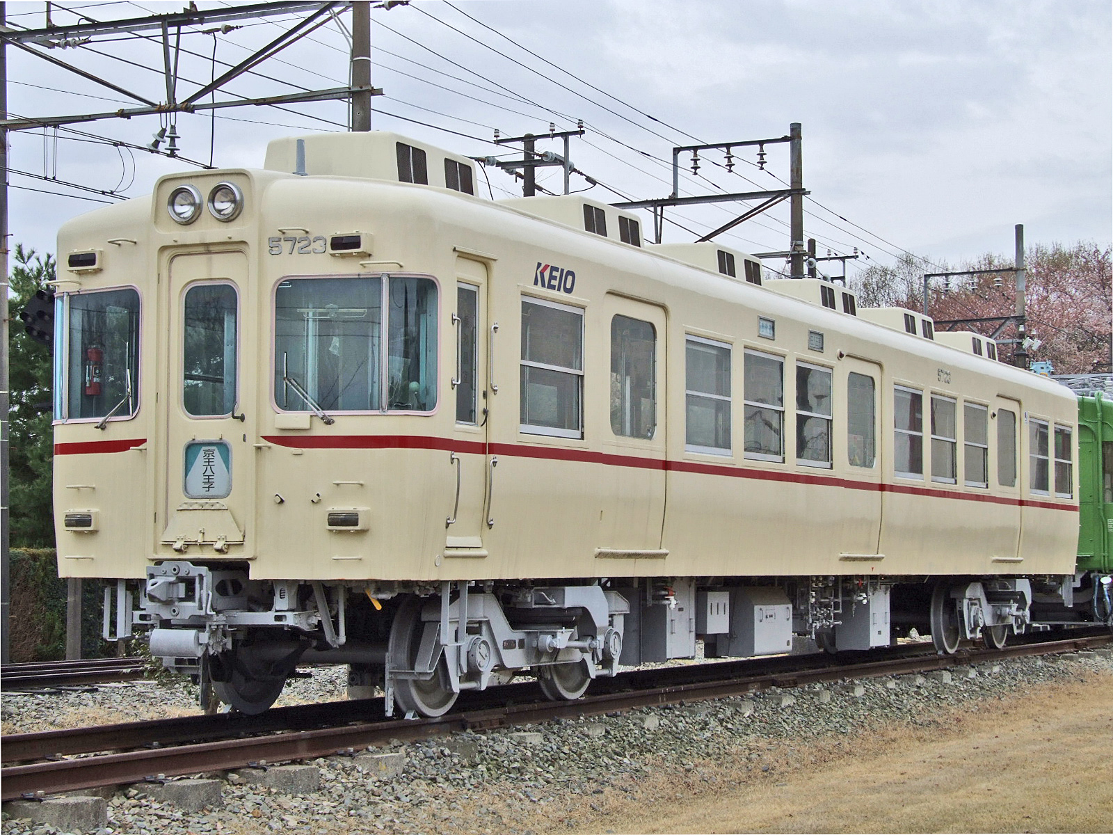 Preserved Keio 5000 series car KuHa 5723